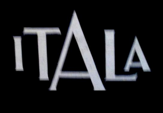 Emblem Itala